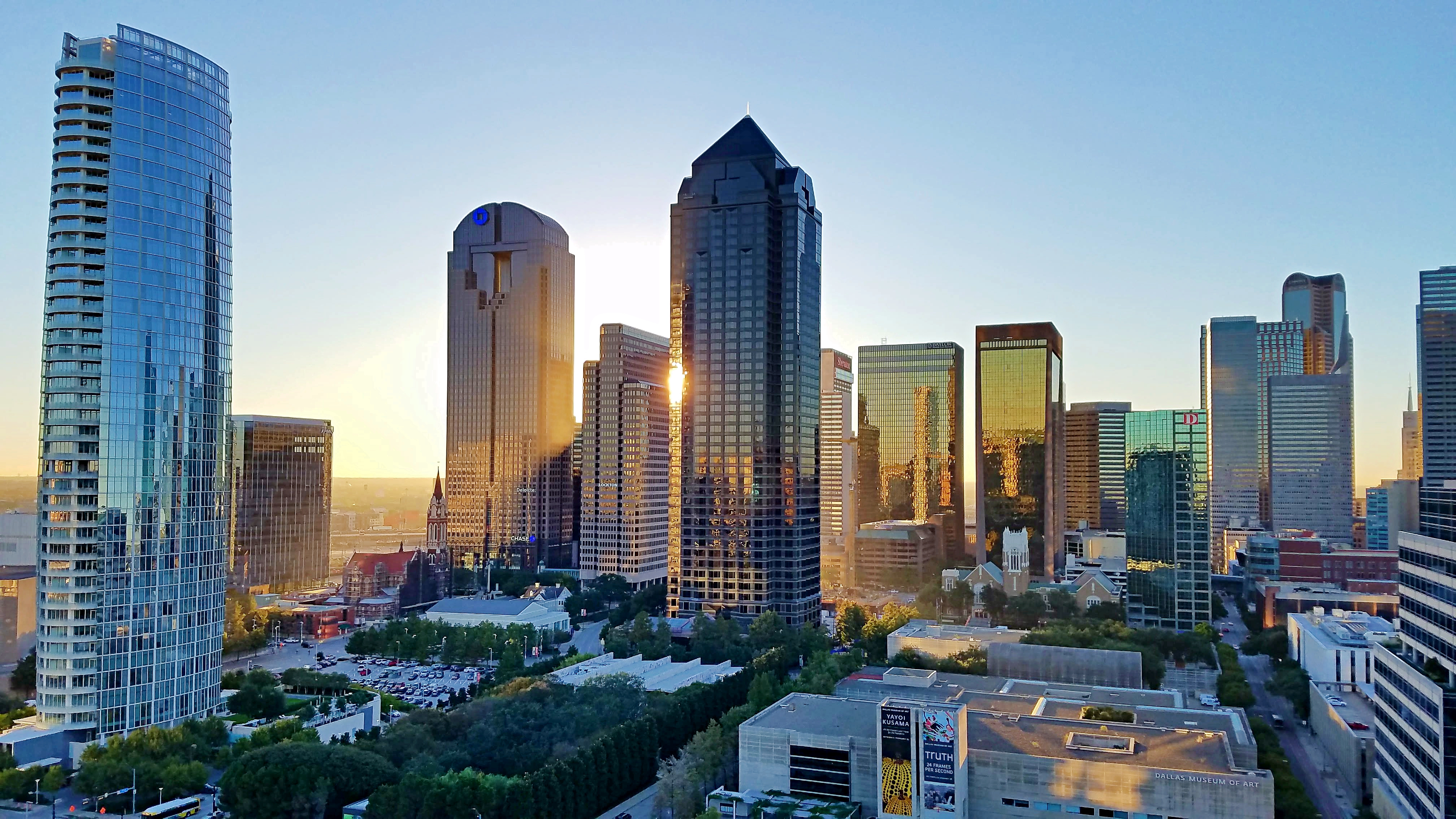 View of Dallas Arts District and the Downtown skyline.